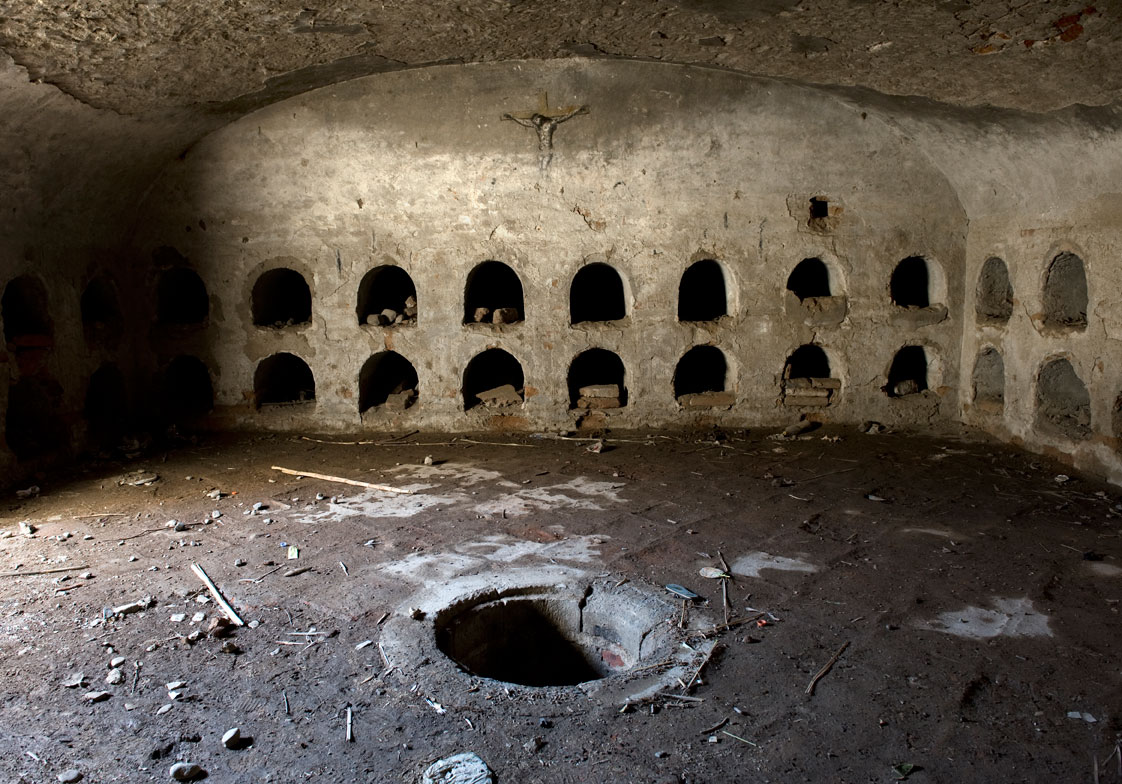 Cripta de la iglesia de San Javier, Nasca, Perú